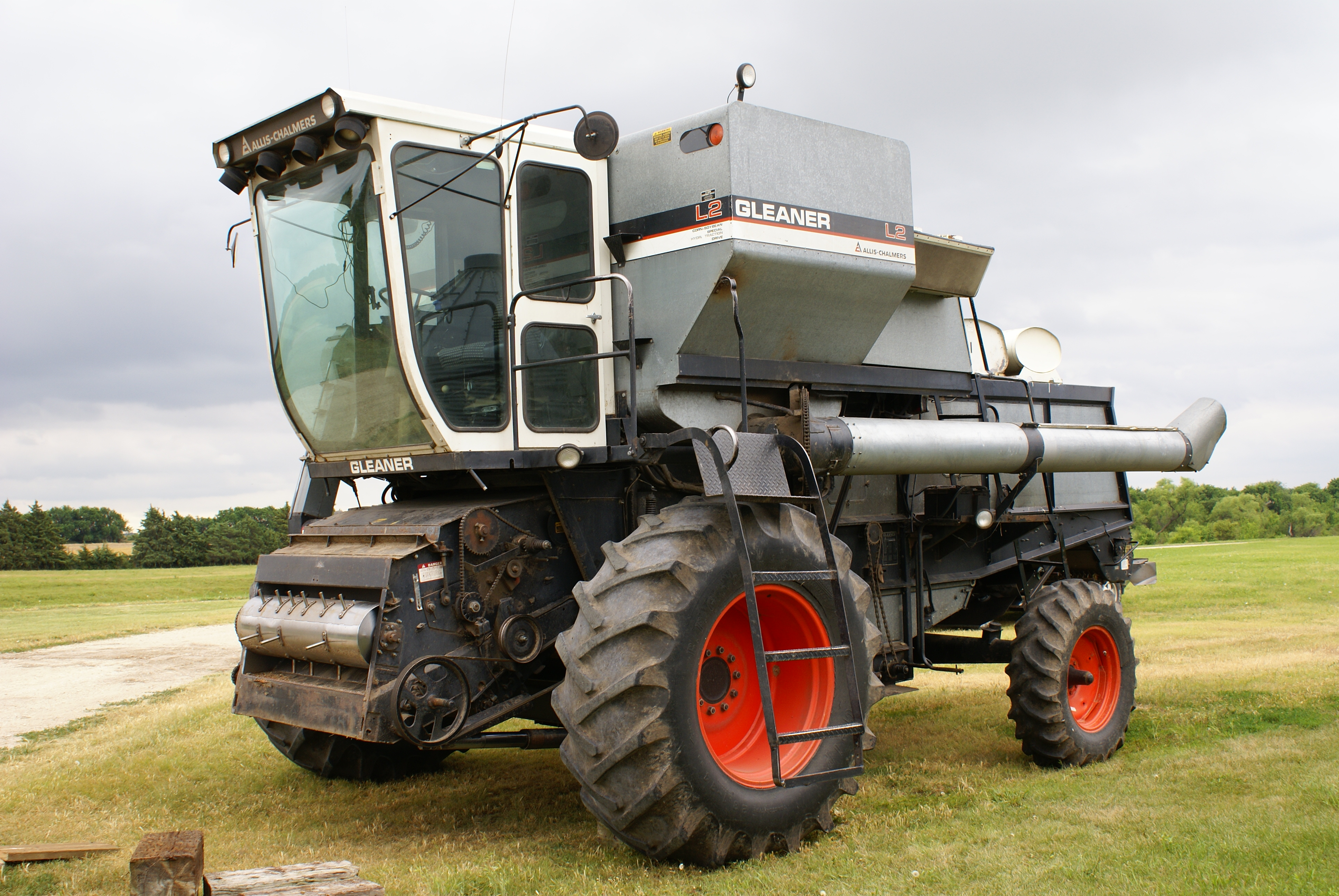 Allis-Chalmers Gleaner L2 Harvester, USA